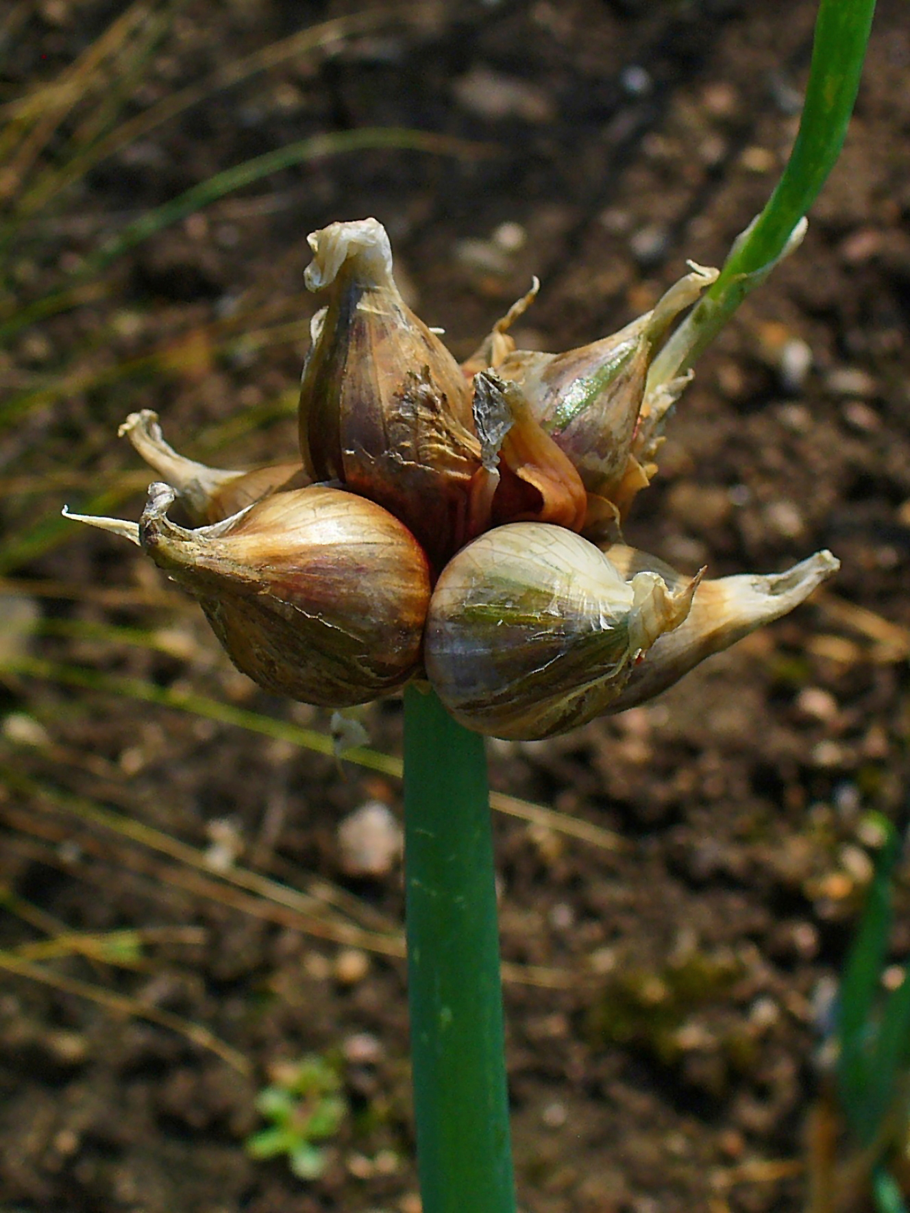 Allium cepa var. proliferum, Alliaceae, Tree Onion, Top Onion, Egyptian Onion, bulblets. Botanical Garden KIT, Karlsruhe, Germany.